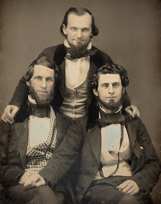 A daguerreotype features George Smith Cook, middle.